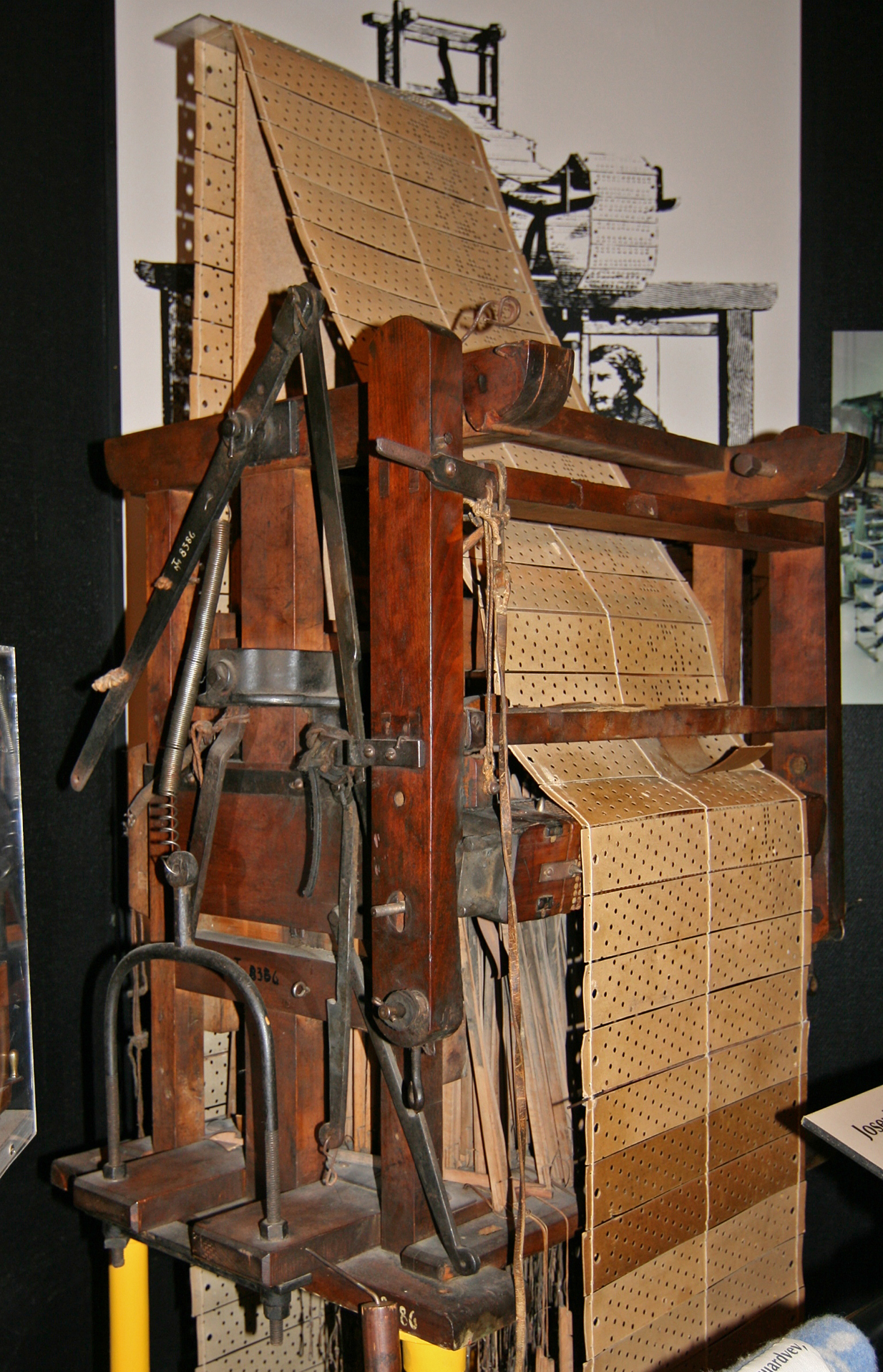 Jacquard loom at Norwegian Technology Museum, Oslo.